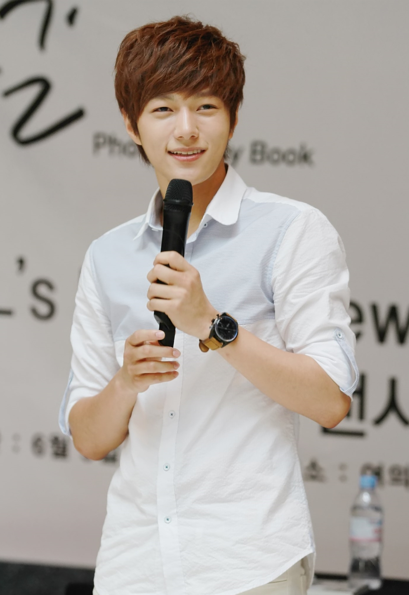 Kim Myung-soo at L's Bravo Viewtiful Fansigning Event on June 9, 2013.